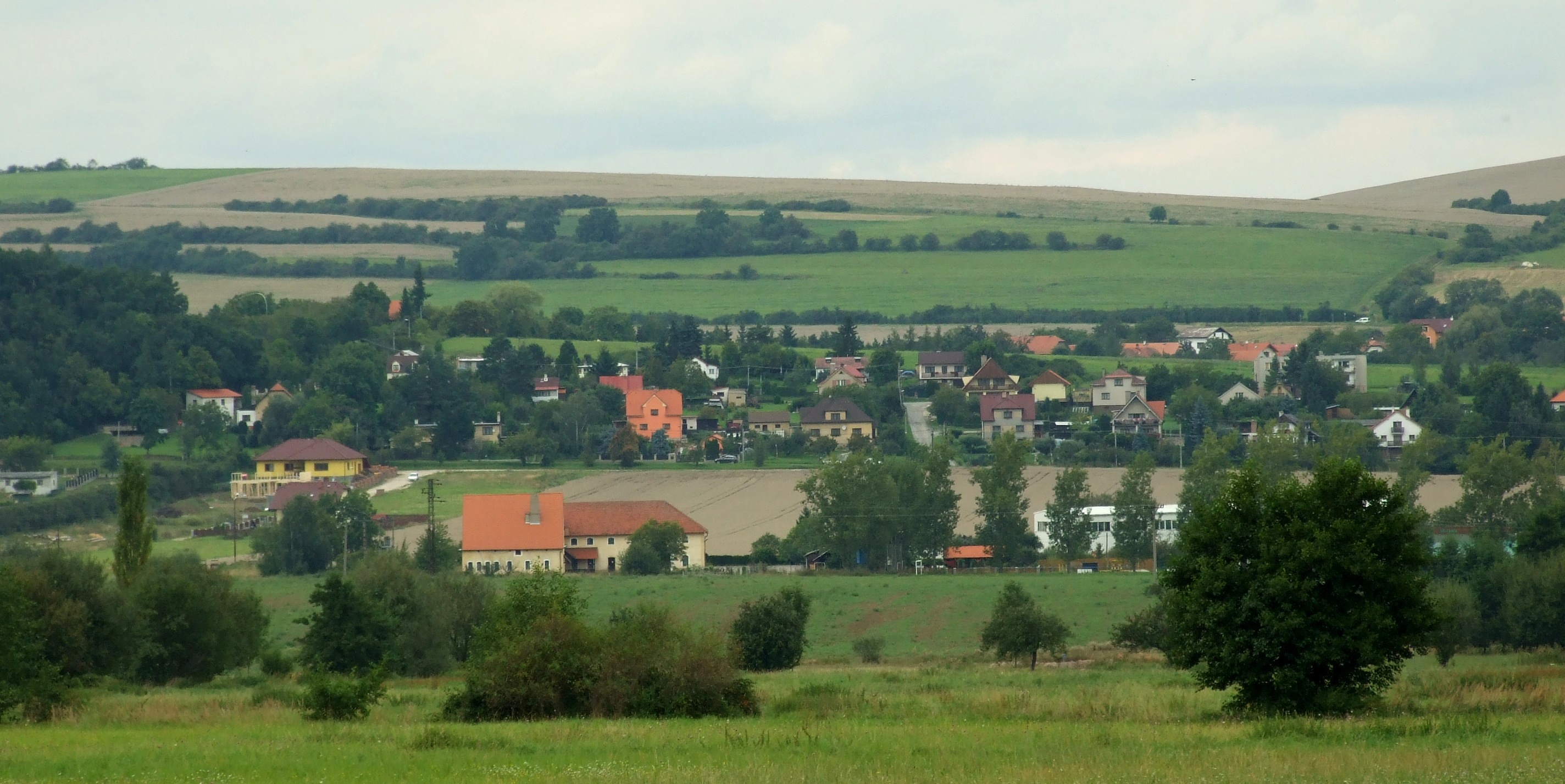 Town of Všeradice seen from around the Vížice village - Beroun District, Central Bohemian Region, CZ